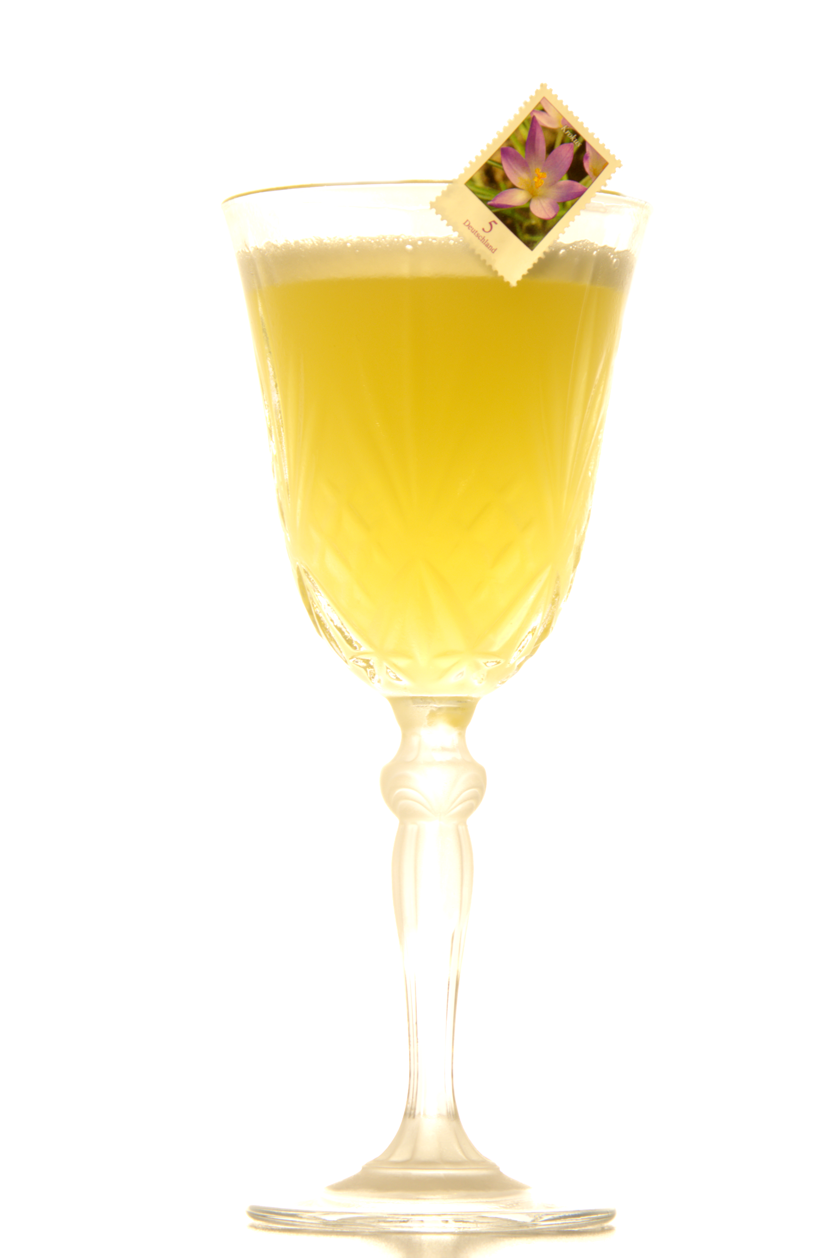 Air Mail Cocktail (or "Airmail Cocktail"), garnished with a German 5-Cent-stamp).